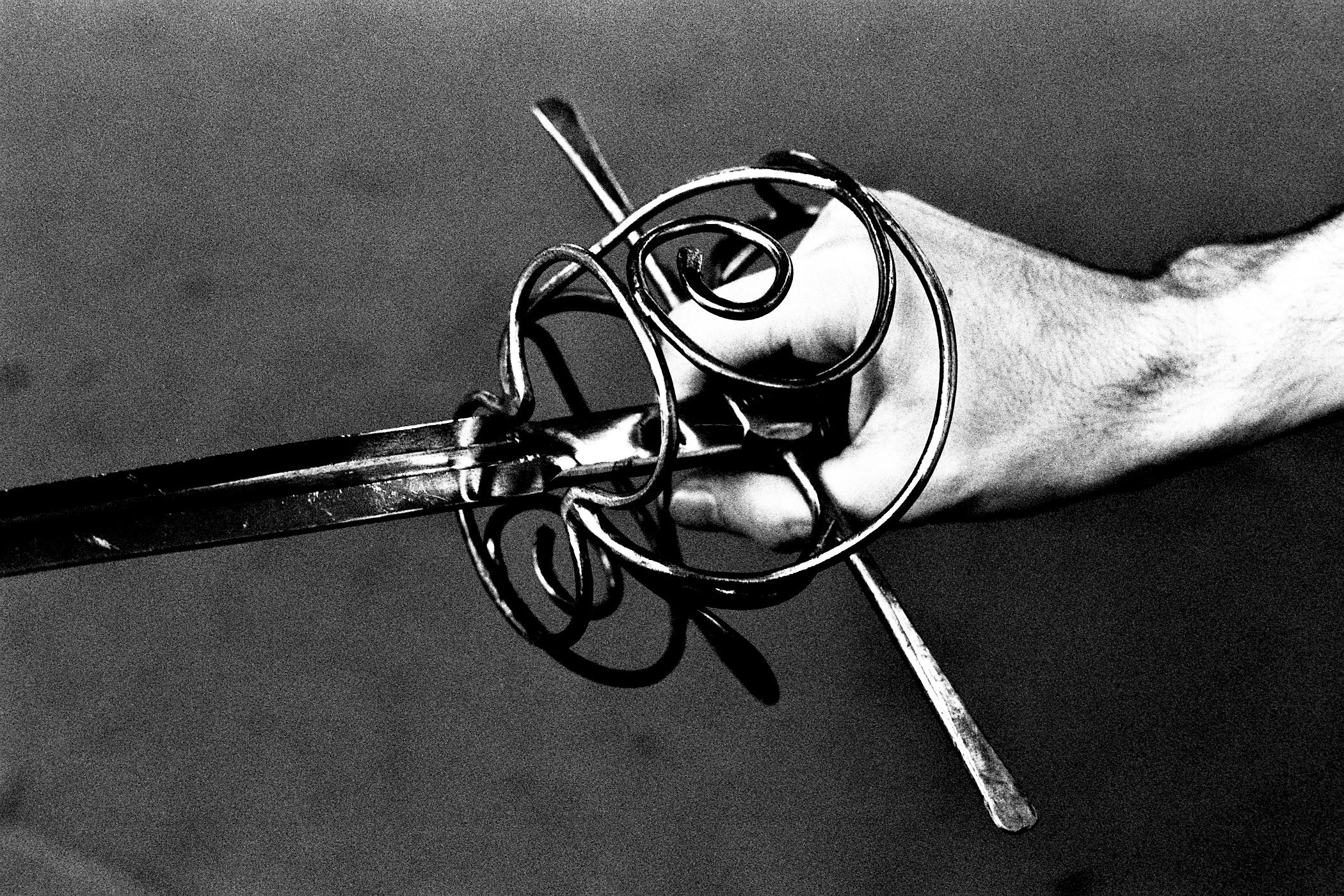 Modern replica of a rapier.Leica R4s, Fujifilm Neopan 1600